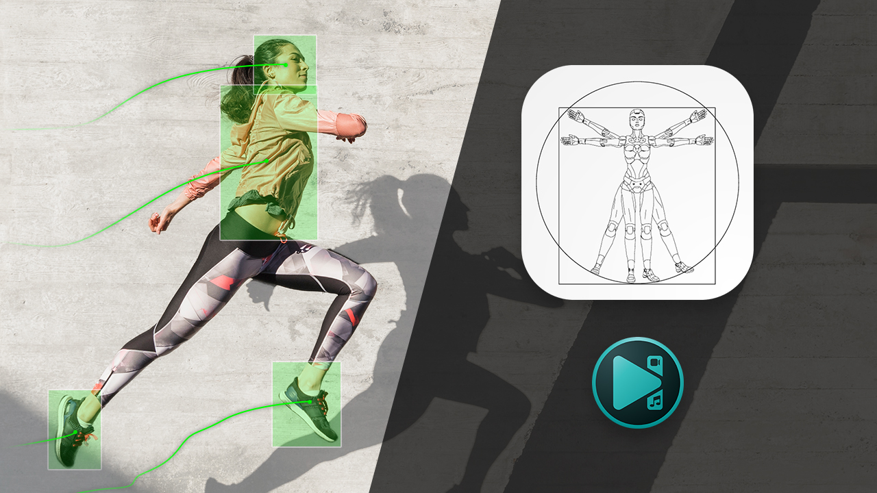 VSDC has released a motion tracking module that allows for registering any object's movement in a video and assigning the trajectory to another object